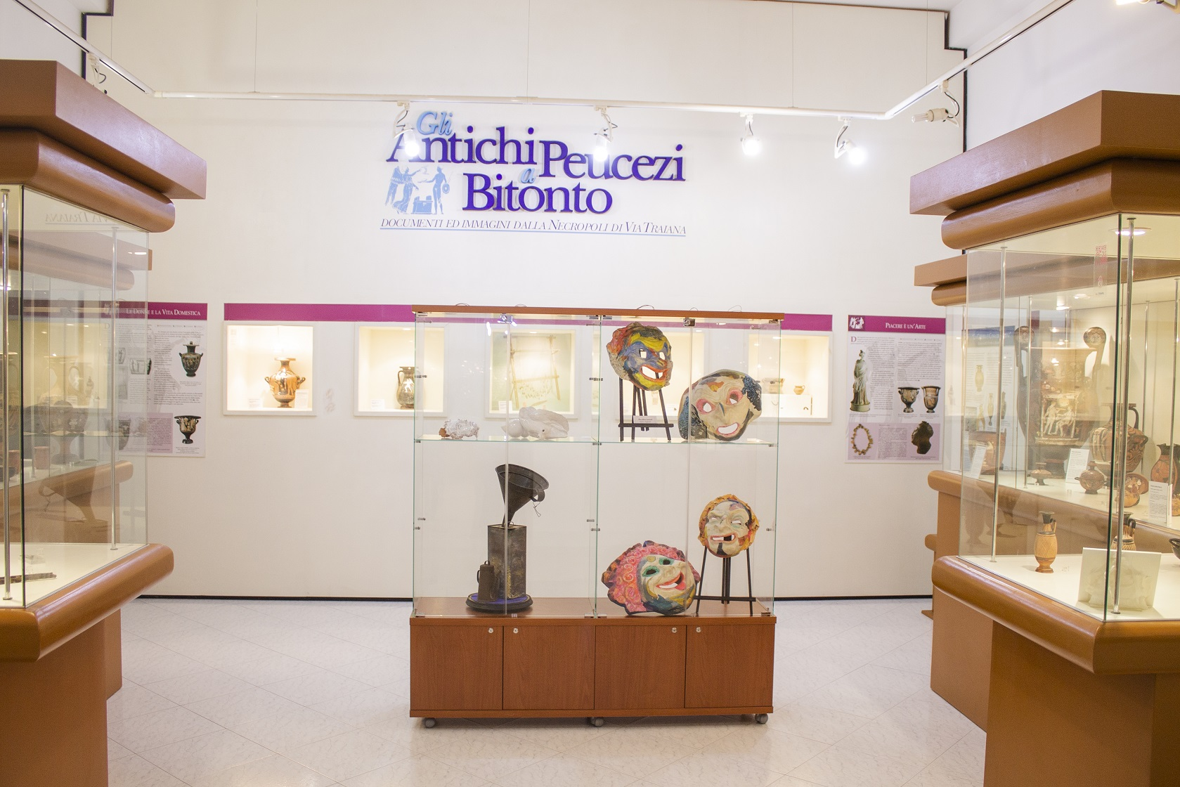 Museo Archeologico di Bitonto